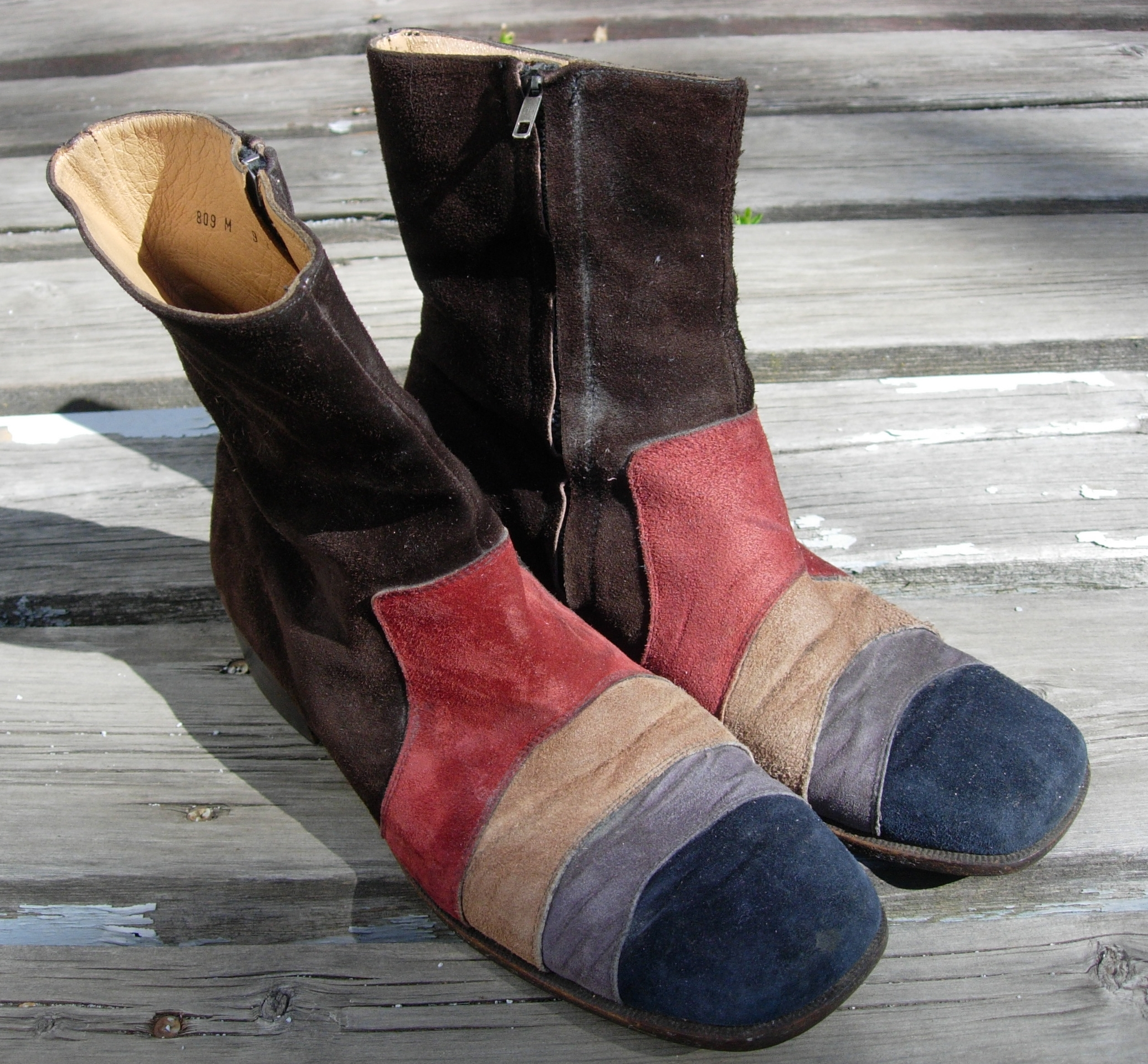 Suede boots ca. 1972